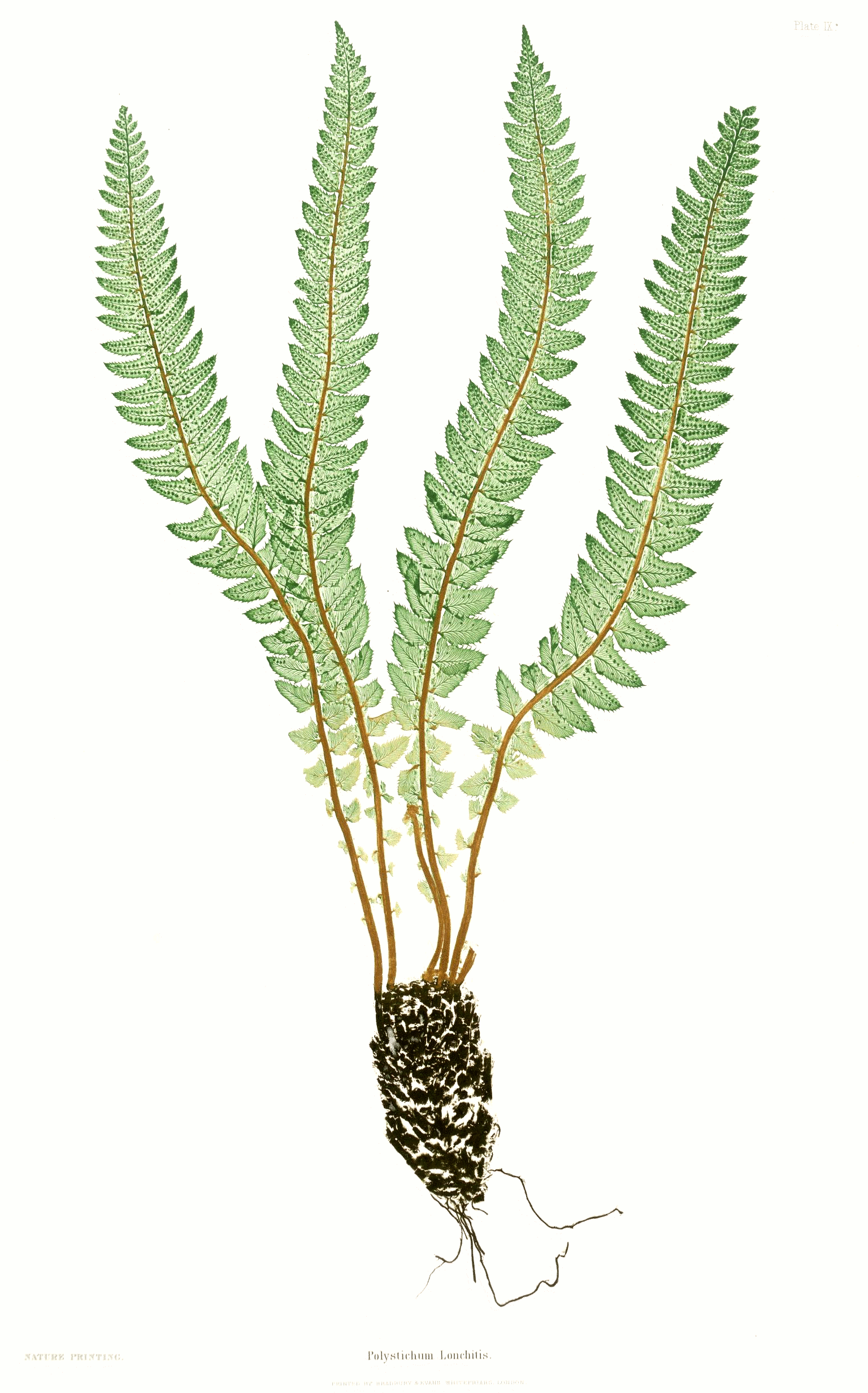 Plate from book